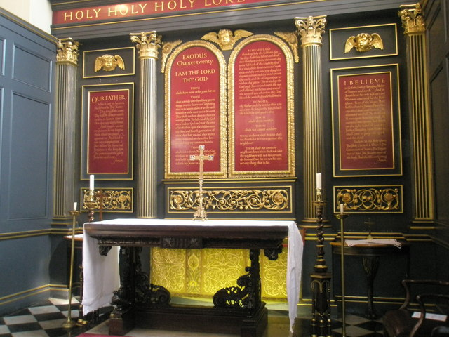 The altar at St James Garlickhythe, near to City of London, Great Britain.